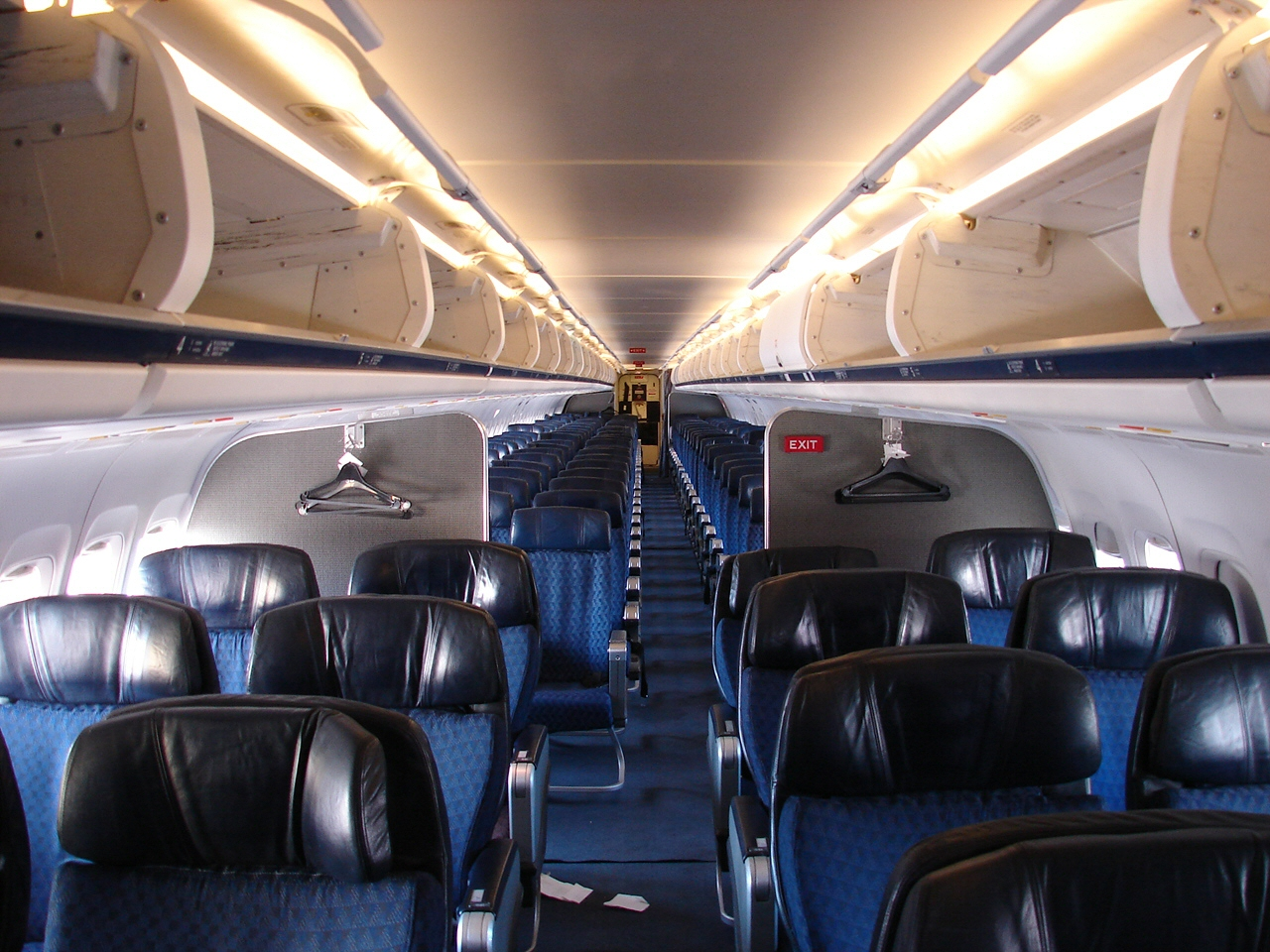 A glimpse of the interior of the McDonnell Douglas MD-83 Operated by American Airlines.